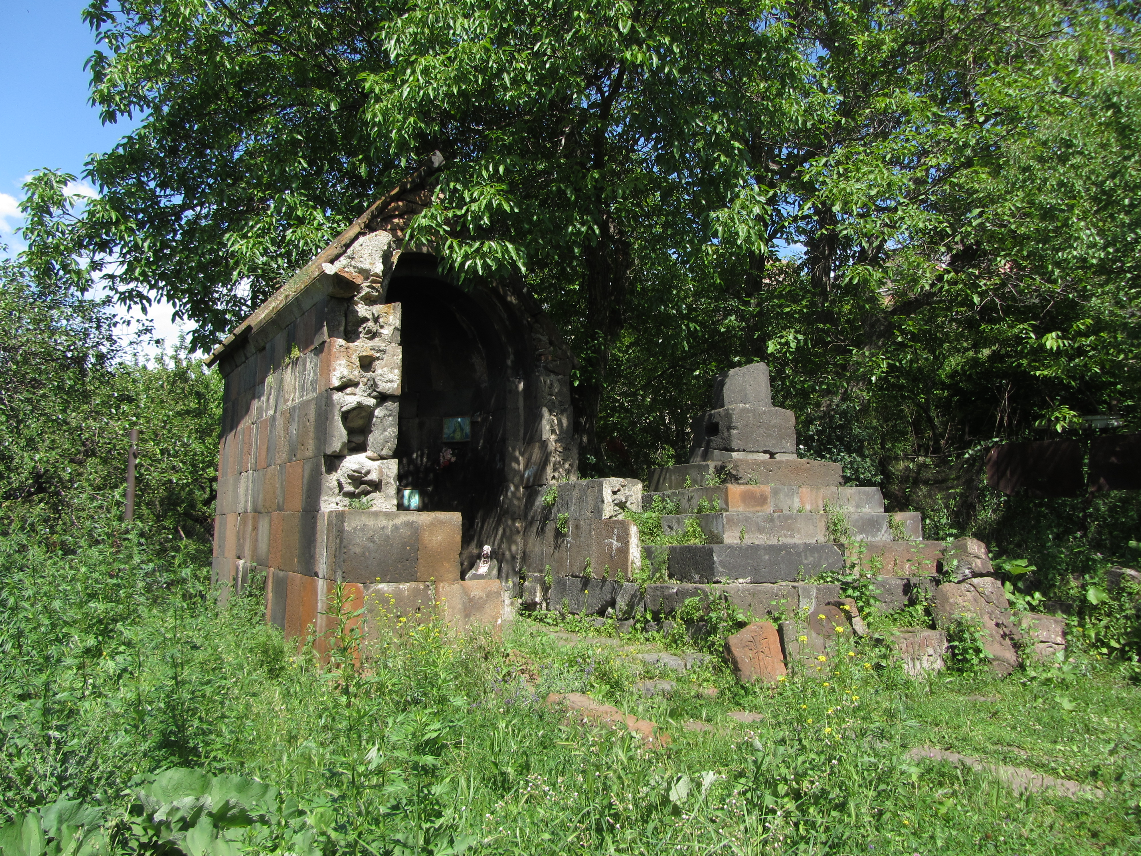 Surb Astvatsatsin Chapel, Avan, Yerevan 2/11